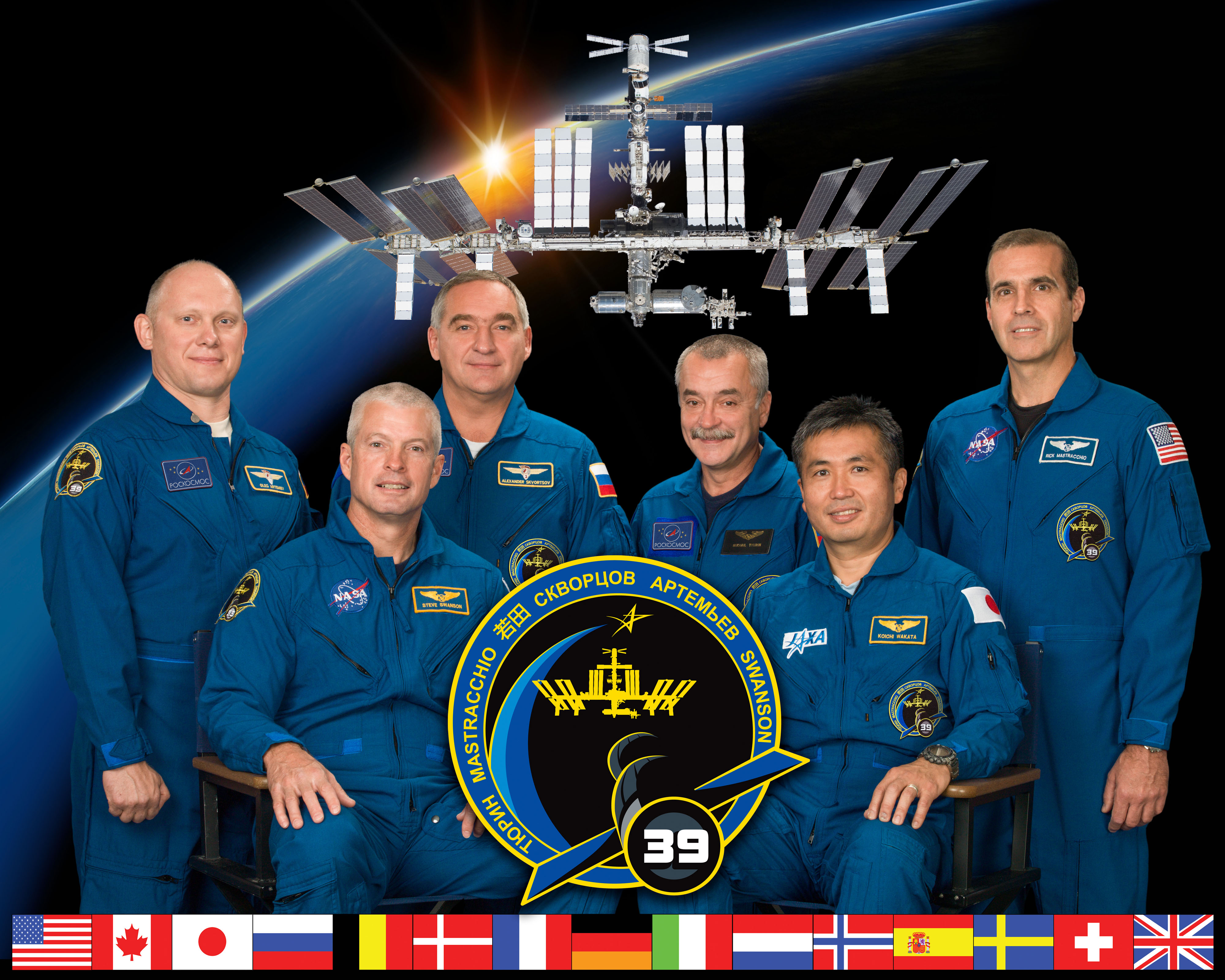 Expedition 39 crew members take a break from training at NASA's Johnson Space Center to pose for a crew portrait. Pictured on the front row are Japan Aerospace Exploration Agency (JAXA) astronaut Koichi Wakata (right), commander; and NASA astronaut Steve Swanson, flight engineer. Pictured from the left (back row) are Russian cosmonauts Oleg Artemyev, Alexander Skvortsov, Mikhail Tyurin and NASA astronaut Rick Mastracchio, all flight engineers.